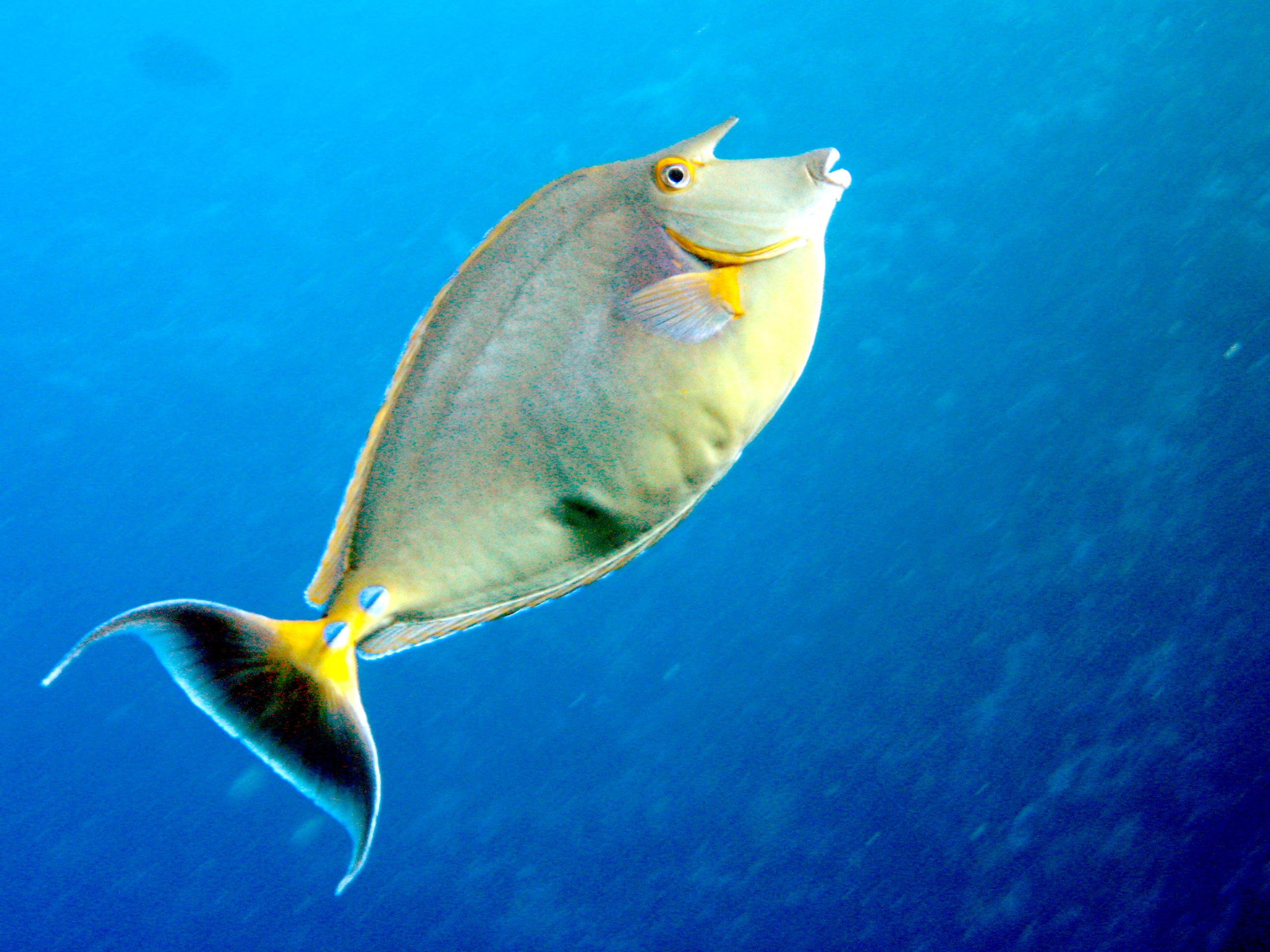 Port Ghalib Egypt